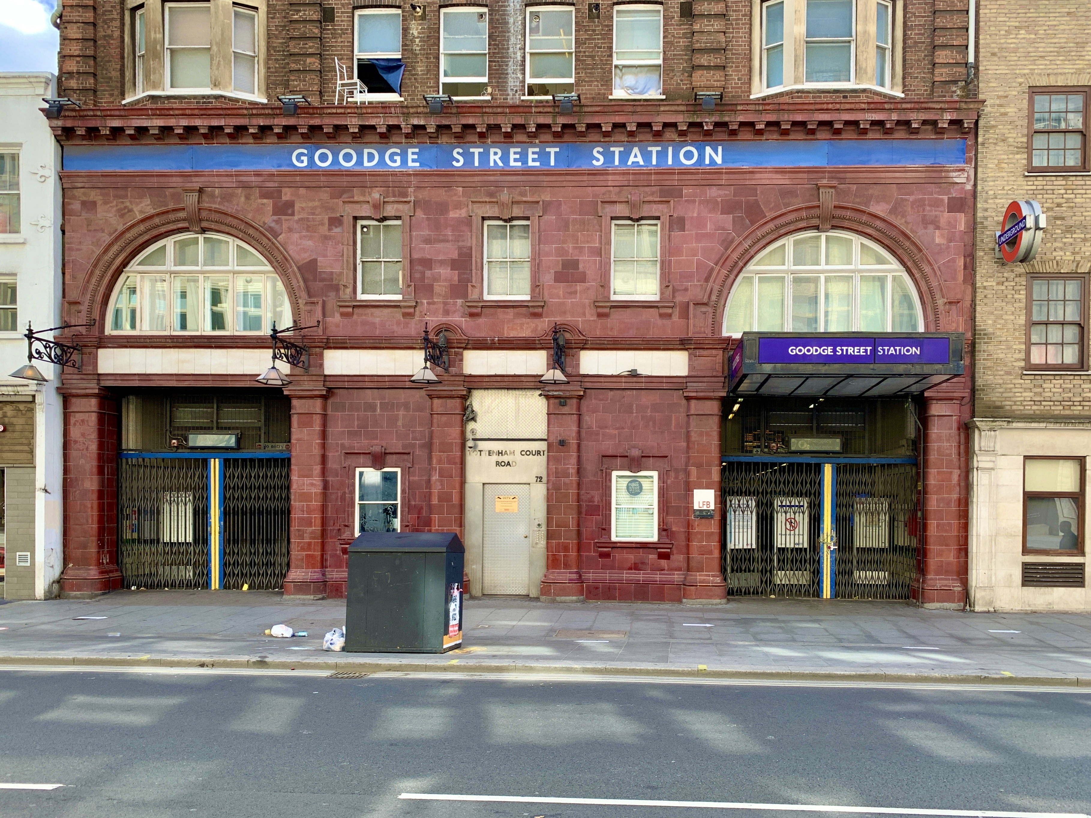 Frontal view of the entrance of Goodge Street tube station Taken during my Northern Line Tube Walk.